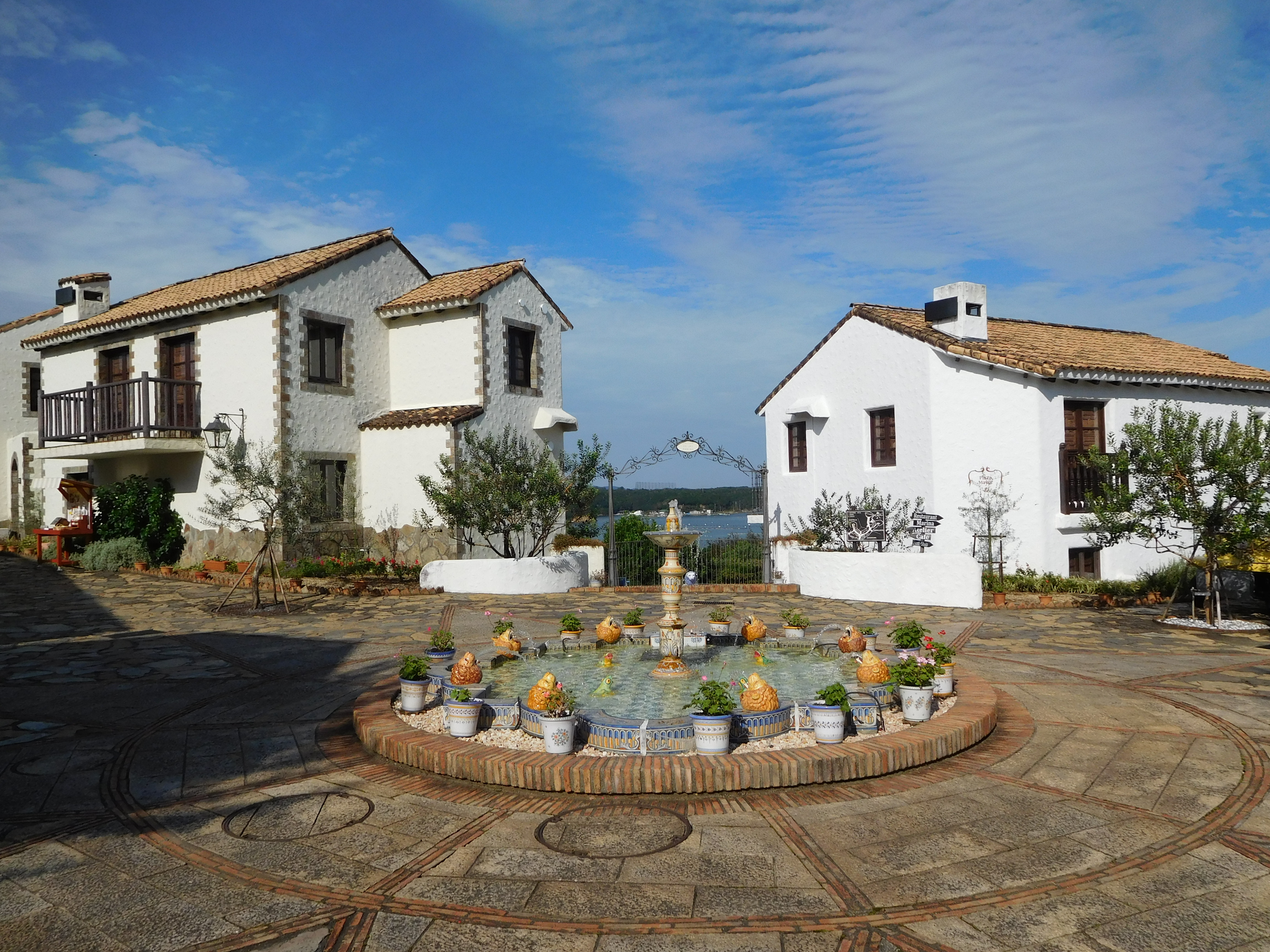 This is a scene at Sardegna Zone in Shima Mediterranean Village.